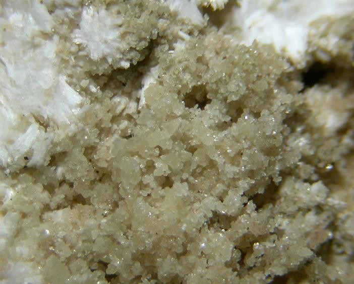 Böhmite crystals on Natrolite (Field of view 10 mm) Locality: Saga 1 Quarry, Sagåsen (Strandåsen), Mørje, Porsgrunn, Telemark, Norway